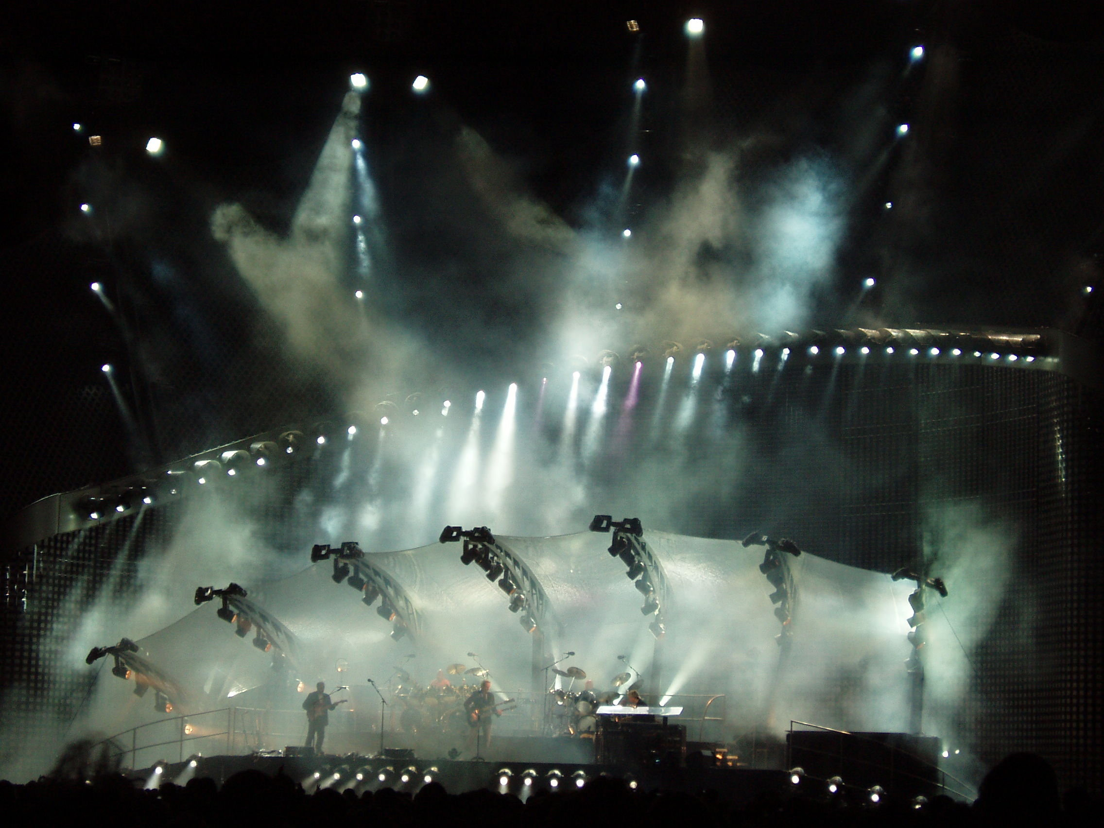 Genesis playing Los Endos live at Twickenham, as part of the 2007 Turn It On Again Tour.